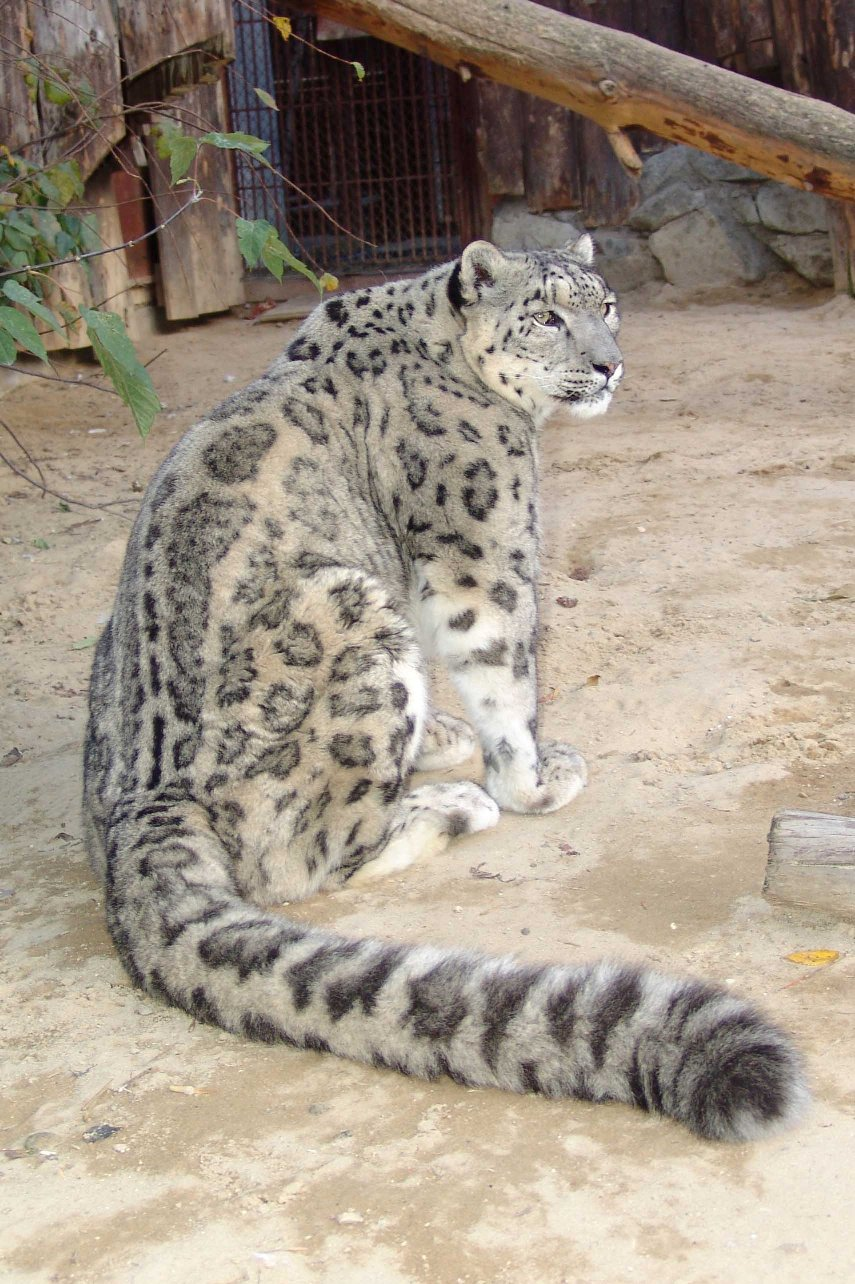 snow leopard